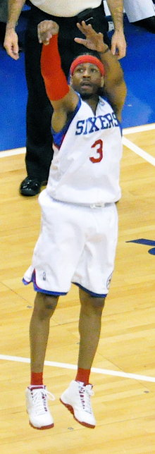 Allen Iverson of the Philadelphia 76ers shooting a jumper